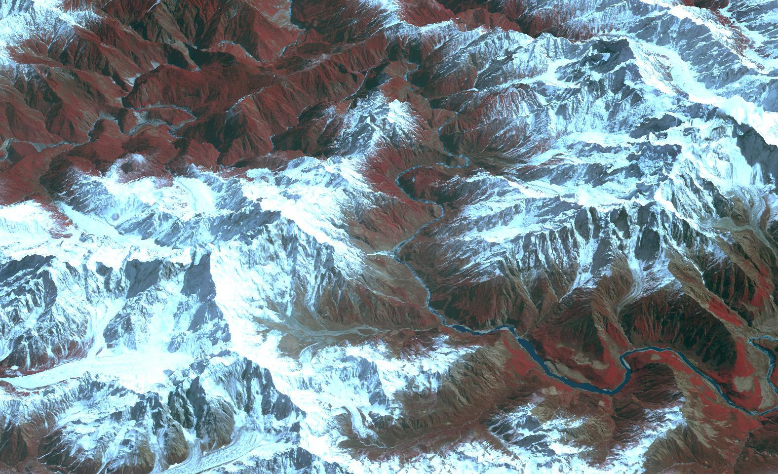 The Yarlung Zangpo Grand Canyon (or Tsangpo Gorge) in Tibet is the deepest canyon in the world, and longer than the Grand Canyon. As the river passes between the peaks of Namcha Barwa (7,782 m) and Gyala Peri (7,234 m) it reaches a maximum depth of 6,009 m. In 2002, seven kayakers were the first westerners to navigate the entire gorge. The image was acquired February 25, 2004, and is located near 29.7 degrees north latitude, 95 degrees east longitude.